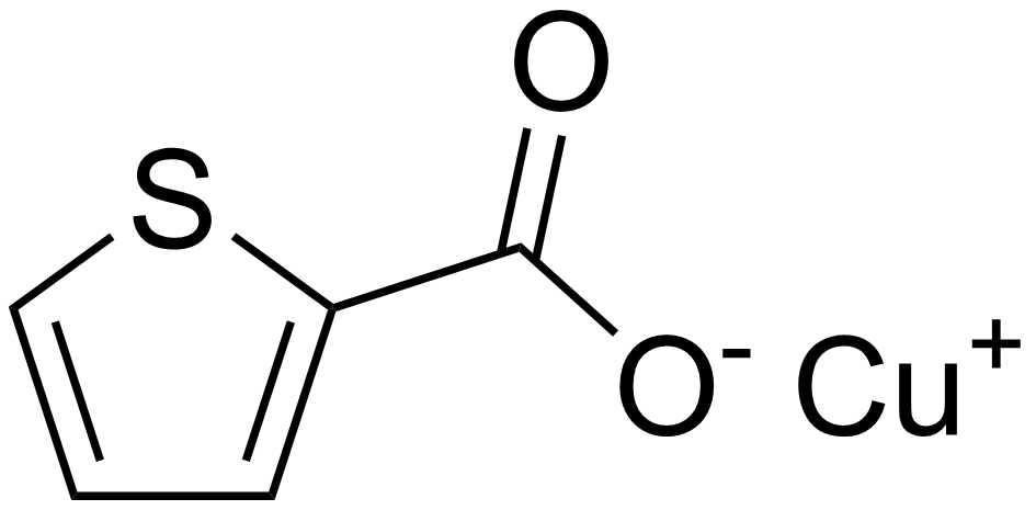 chemical structure of Copper(I)-thiophene-2-carboxylate